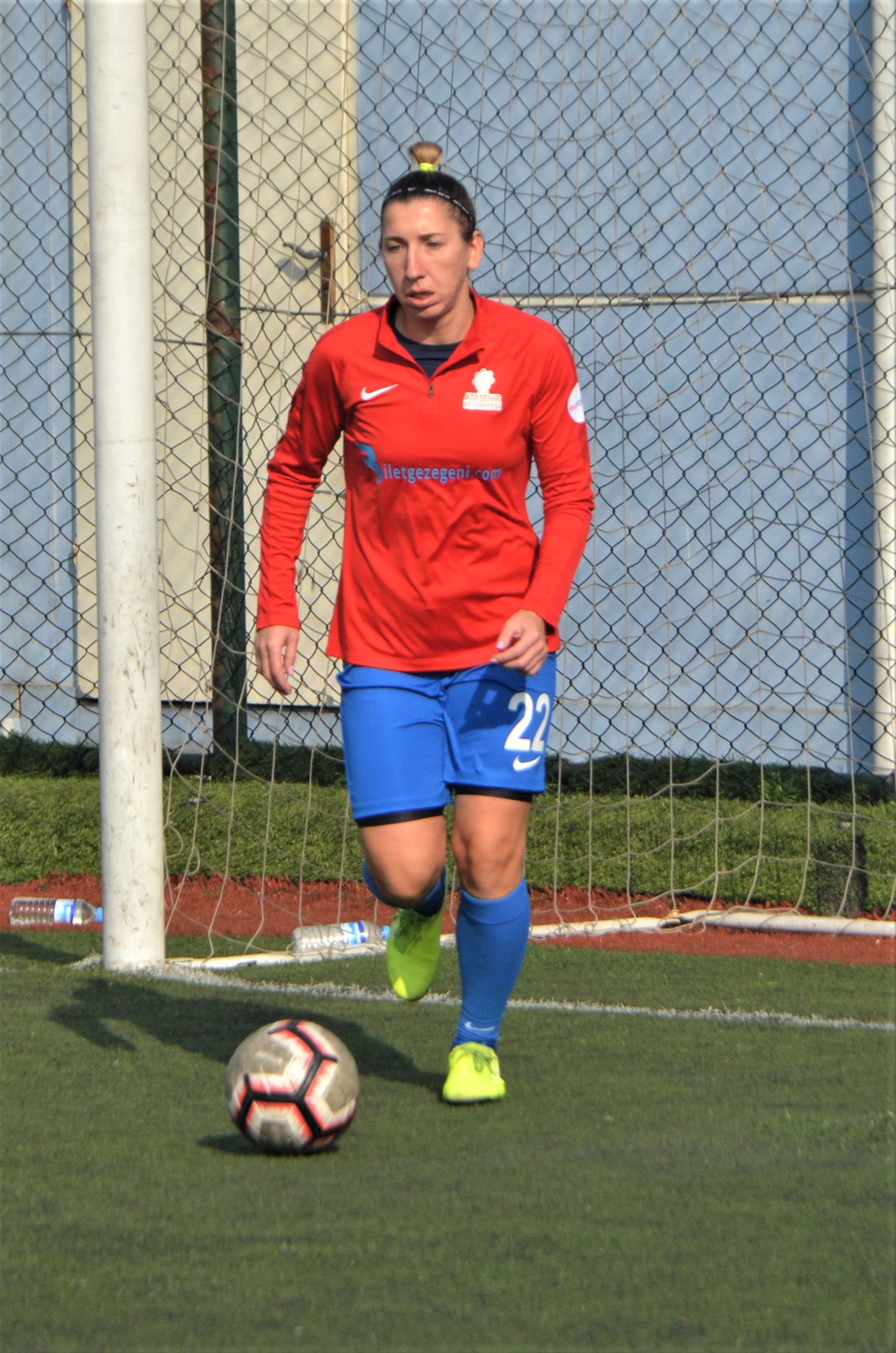 Anastasiya Kunitskaya of Ataşehir Belediyespor in the 2019-20 Turkish Women's First League